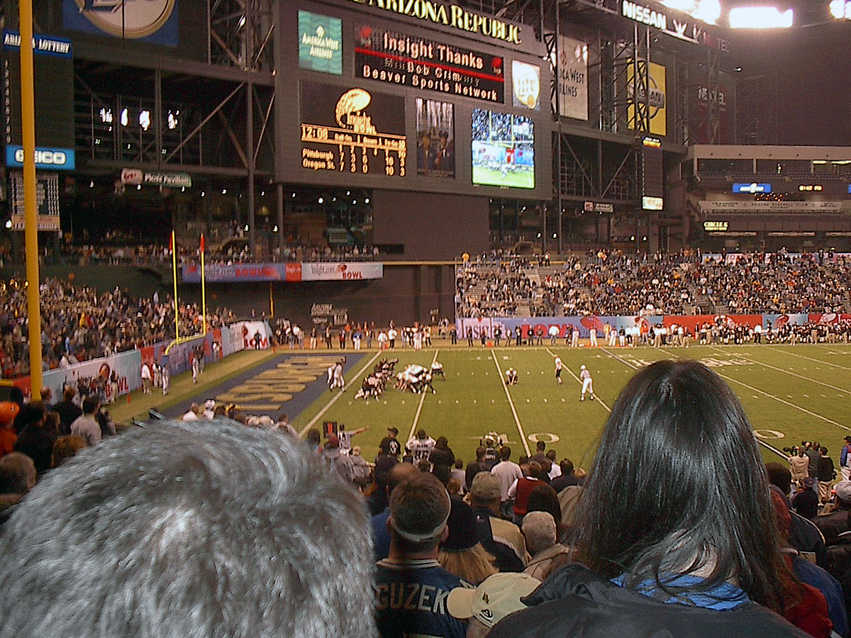 The 2002 Insight Bowl: Pittsburgh Panthers vs. Oregon State Beavers. Pitt won 38-13.